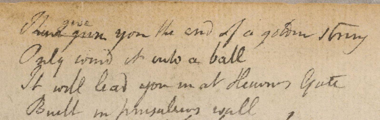 Blake manuscript - Notebook 1808 - 66 Ill give you the end of a golden string